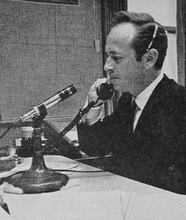 Photo of disc jockey Jim Runyon.